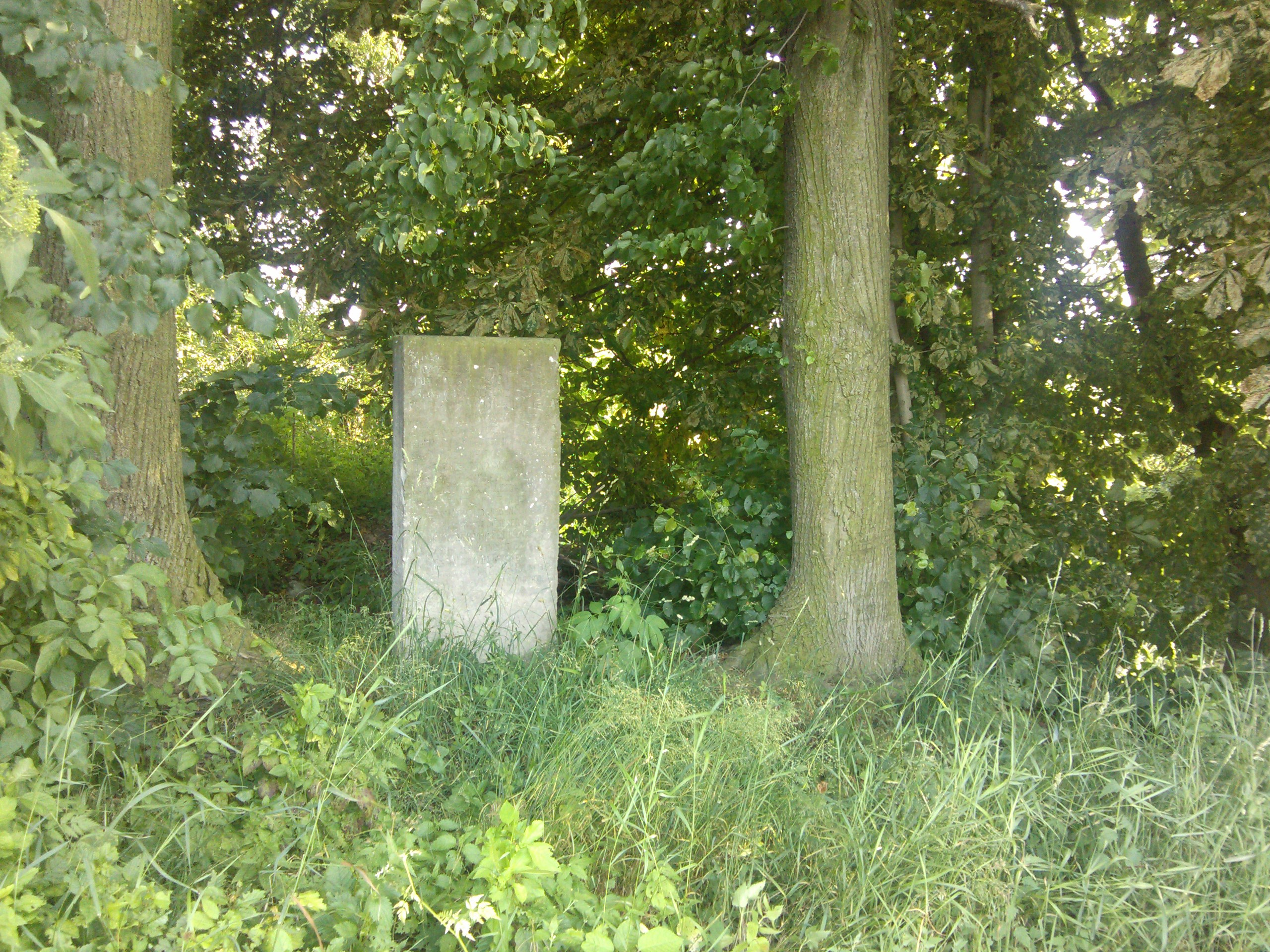 Memorial Peststein in Trogen. In memory of the victims of the pestilence in Trogen in 1607